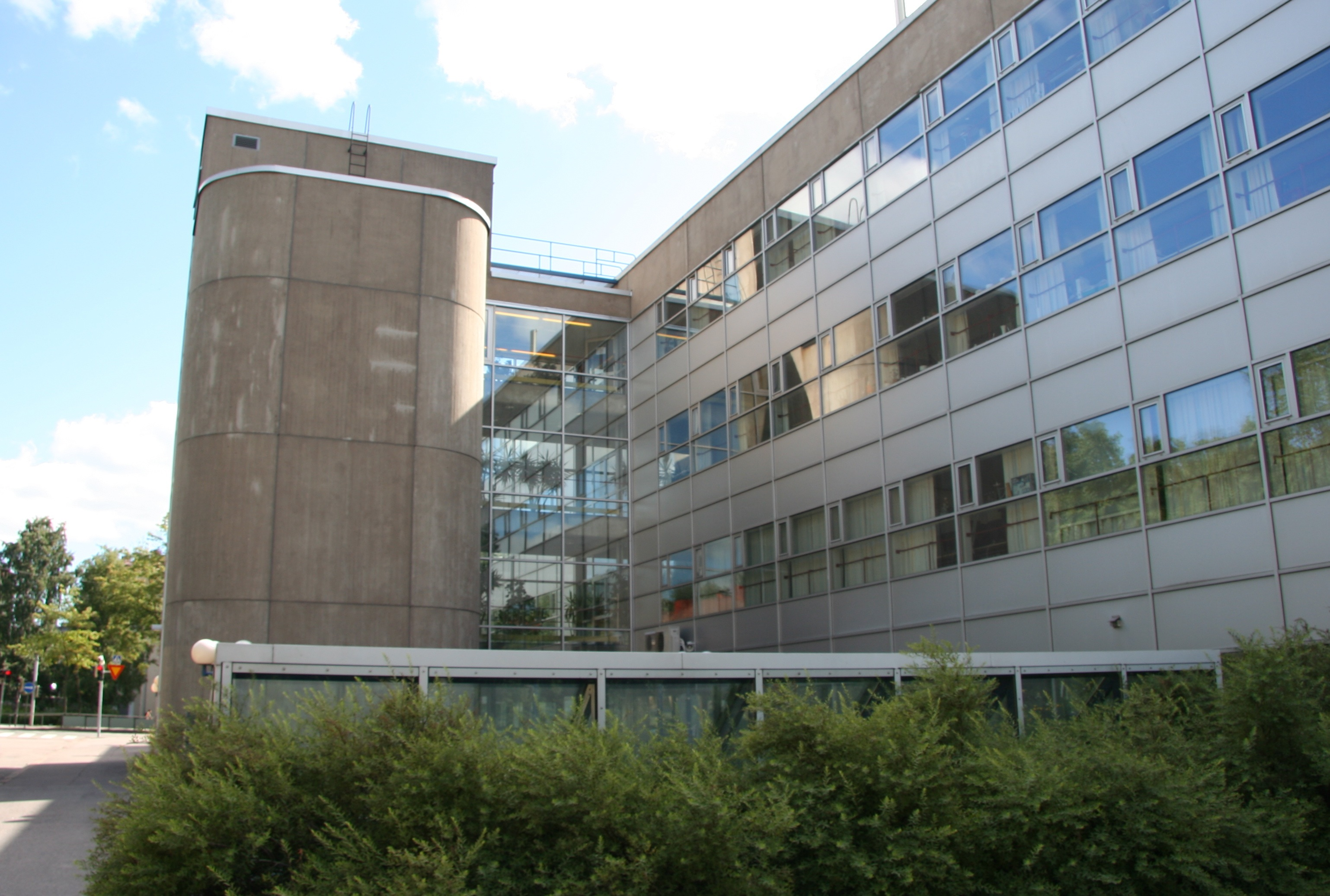 The Helsinki School of Natural Sciences in Käpylä, Helsinki, Finland. Completed in 1973. Architect: Aarno Ruusuvuori.